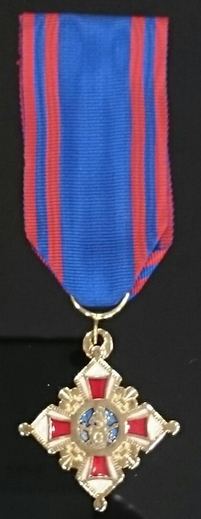 Cross of the battle of Mengíbar